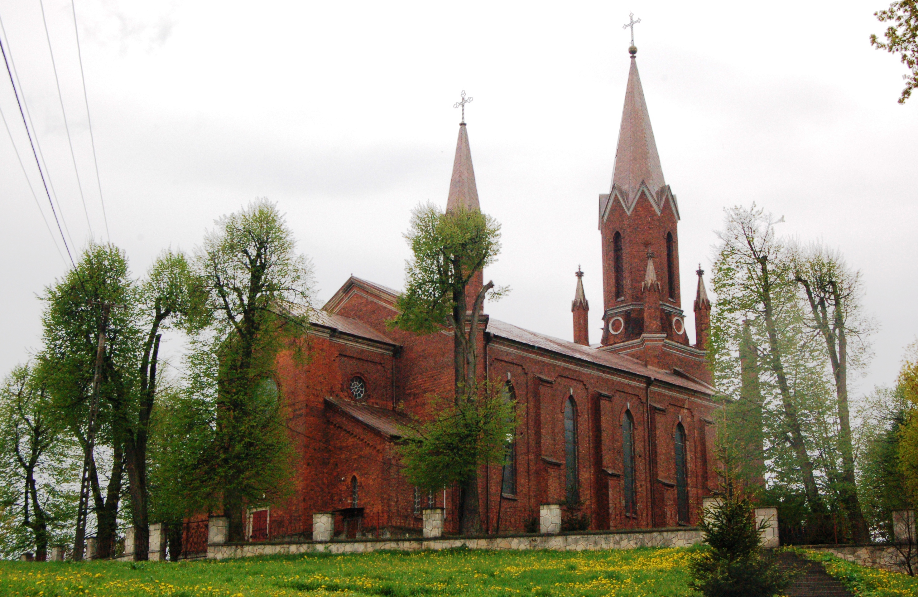 Saint Catherine of Alexandria church in Iwaniska, Poland